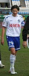 Alexey Smertin as a captain of FC Dynamo Moscow